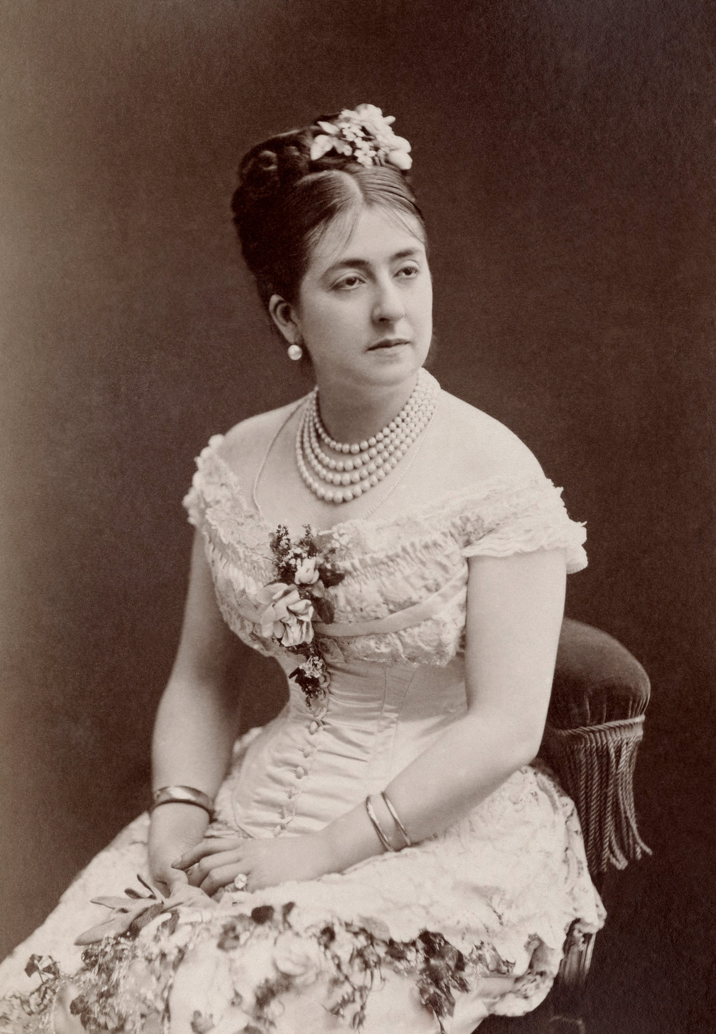 Léonide Leblanc (1842 - 1894), French actress and famous courtesan during the French Second Empire